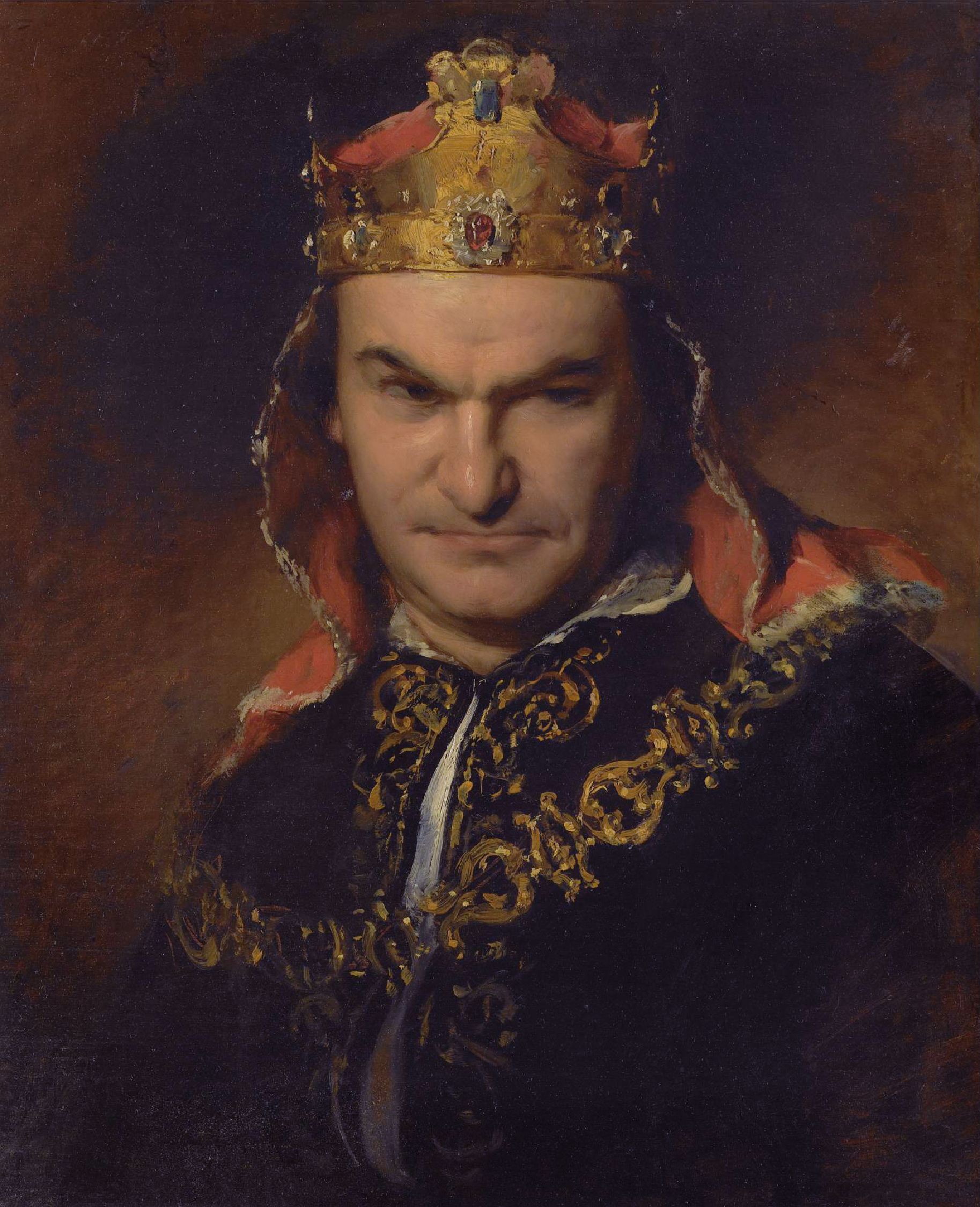 Bogumil Dawison as Richard III